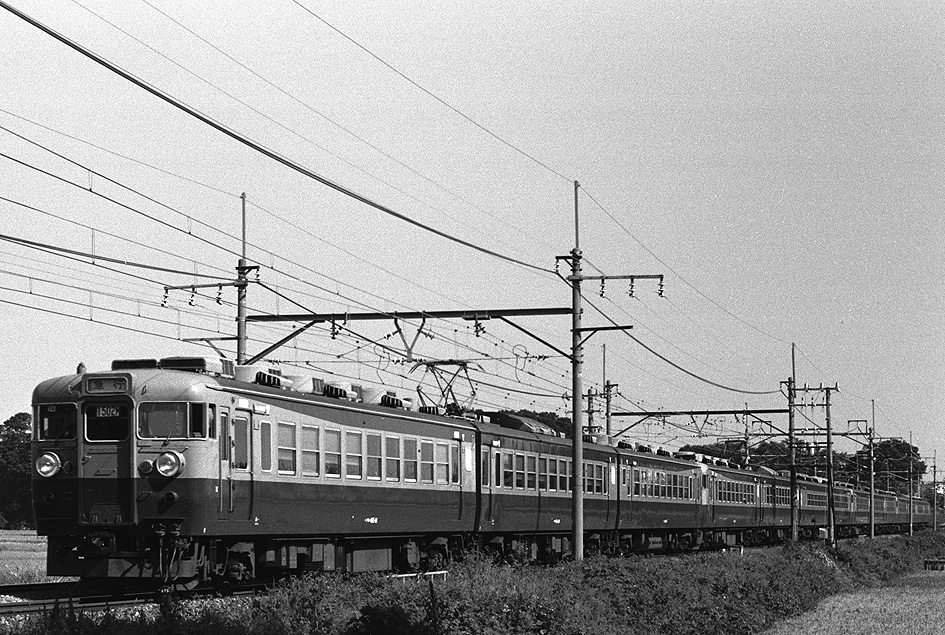 165 series EMU formation on a Nasuno express service